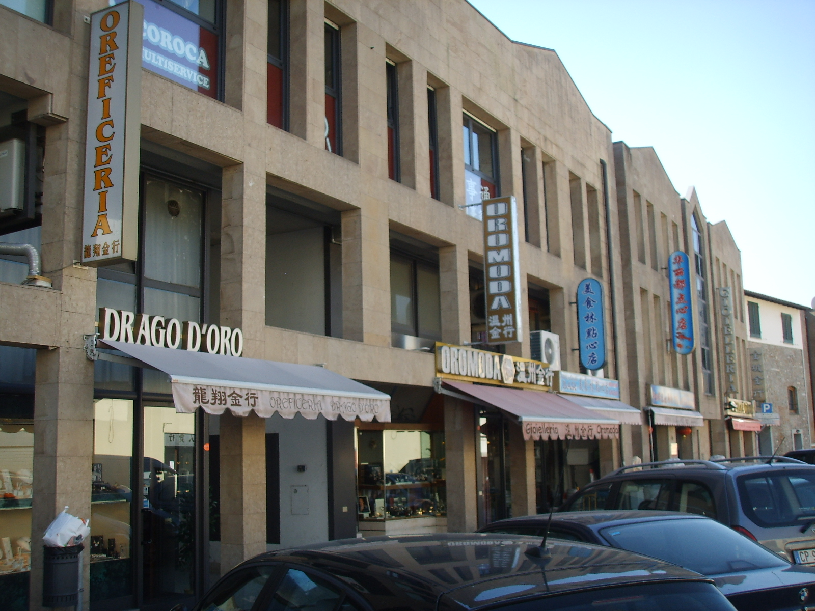 Chinatown on Via Antonio Marini in Prato